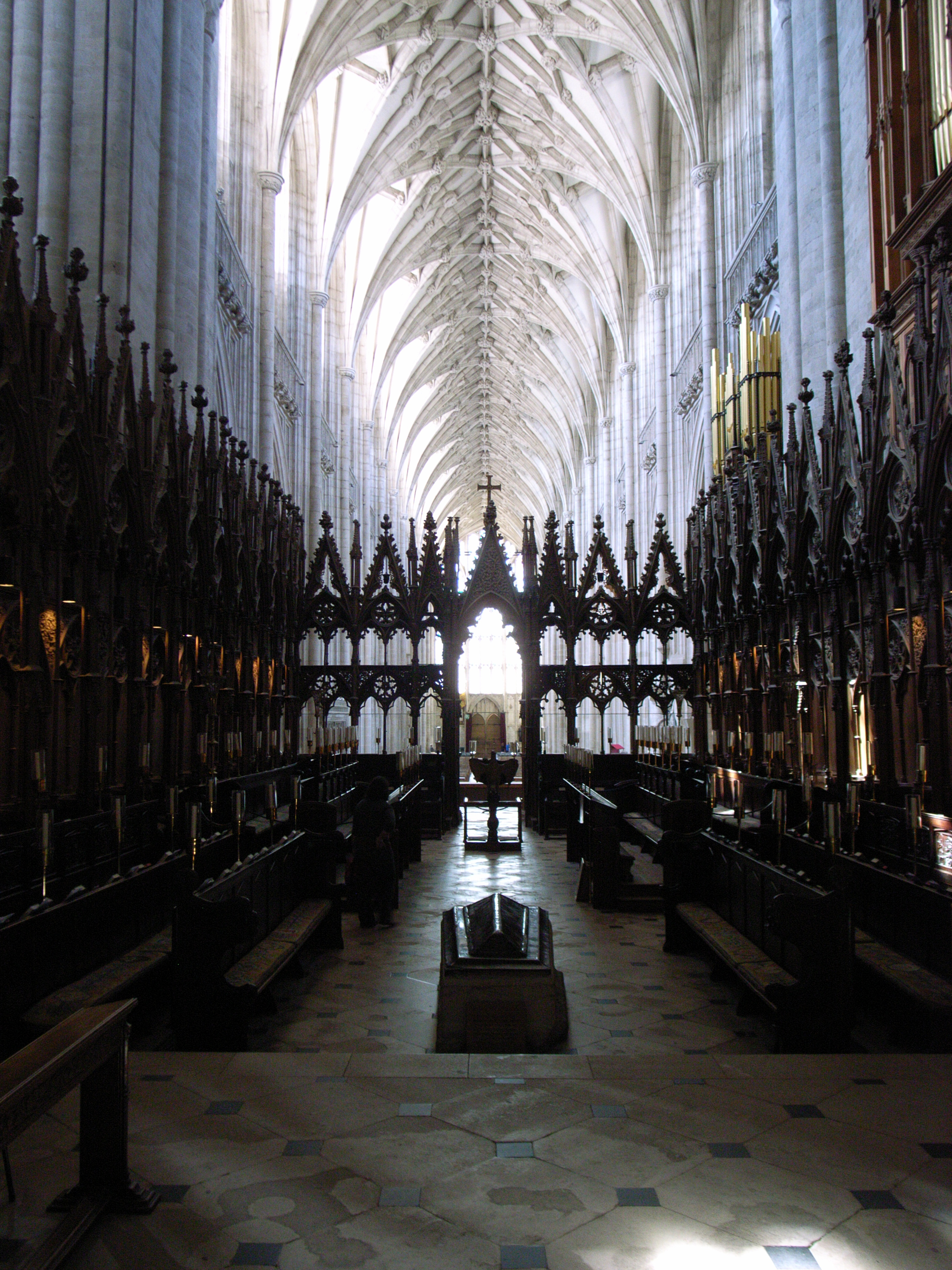 Winchester Cathedral, Winchester, England. View west from the choir into the nave.